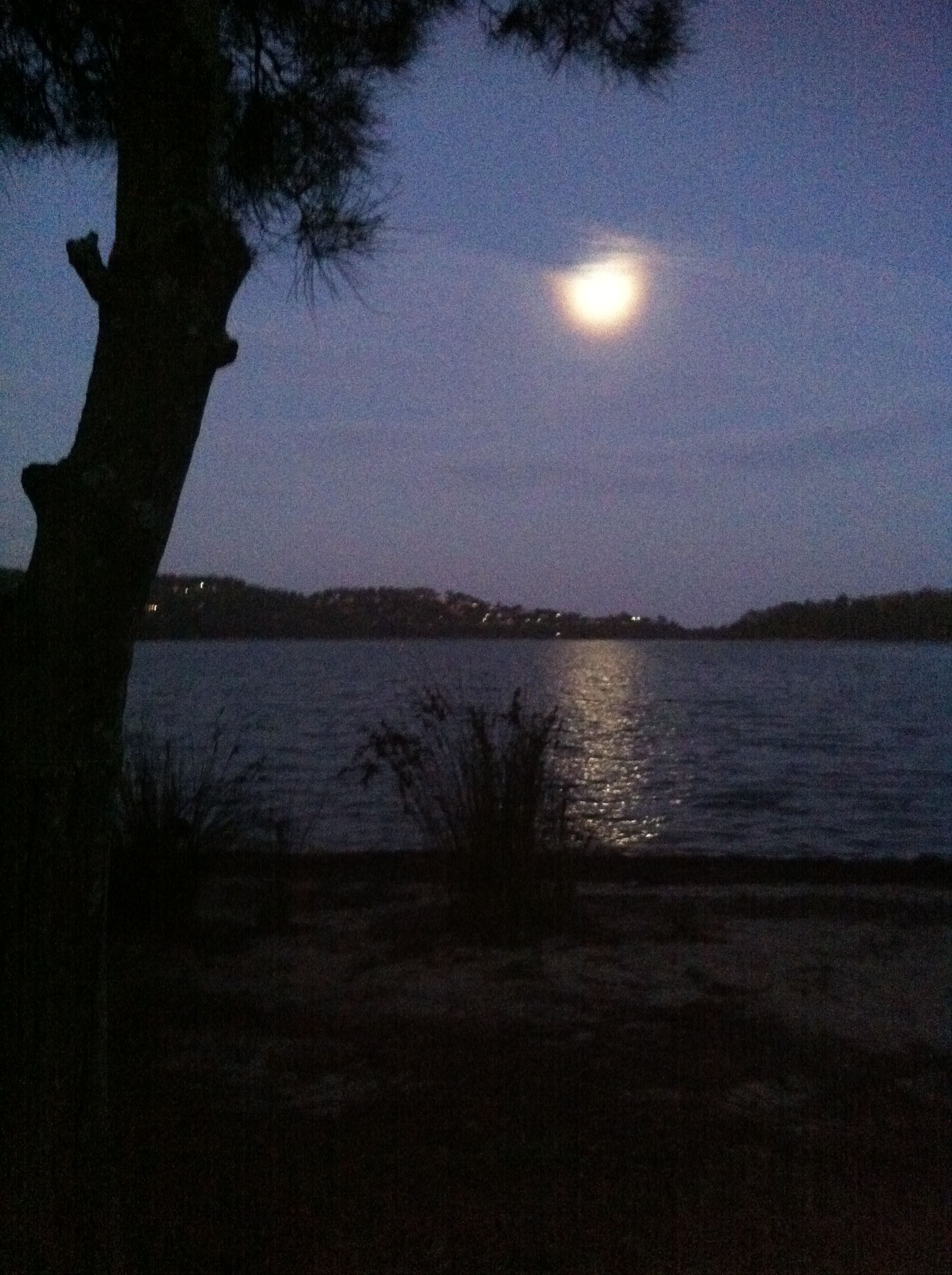 Moonlight over Narrabeen Lake, NSW Australia